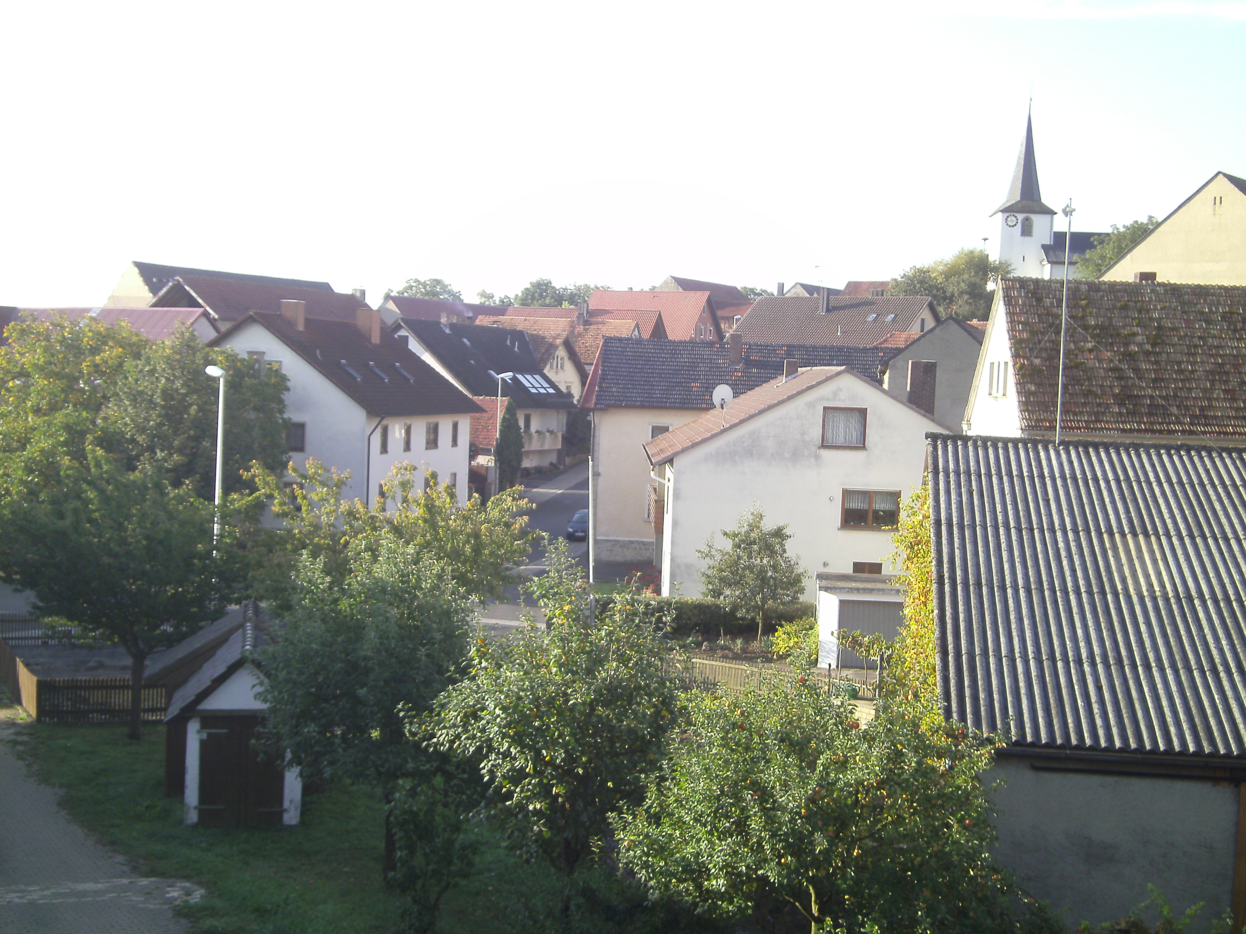 Central place of Gresshausen